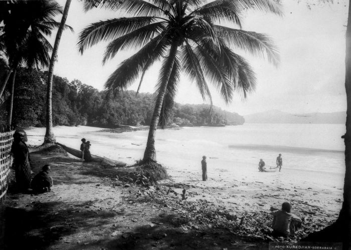 Beach at Popoh Bay